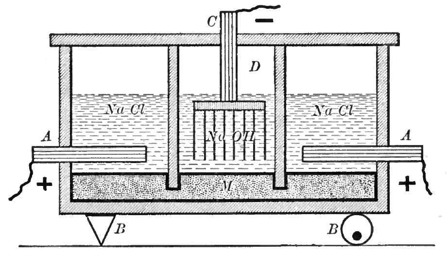 Subject: Diagram of mercury electrolysis aparatus for the production of sodium hydroxide. Source: Descriptive Chemistry by Lyman C. Newell, page 291; D. C. Heath and company, publisher Copyright date of source book is visible on frontpiece page of book, given as 1903.